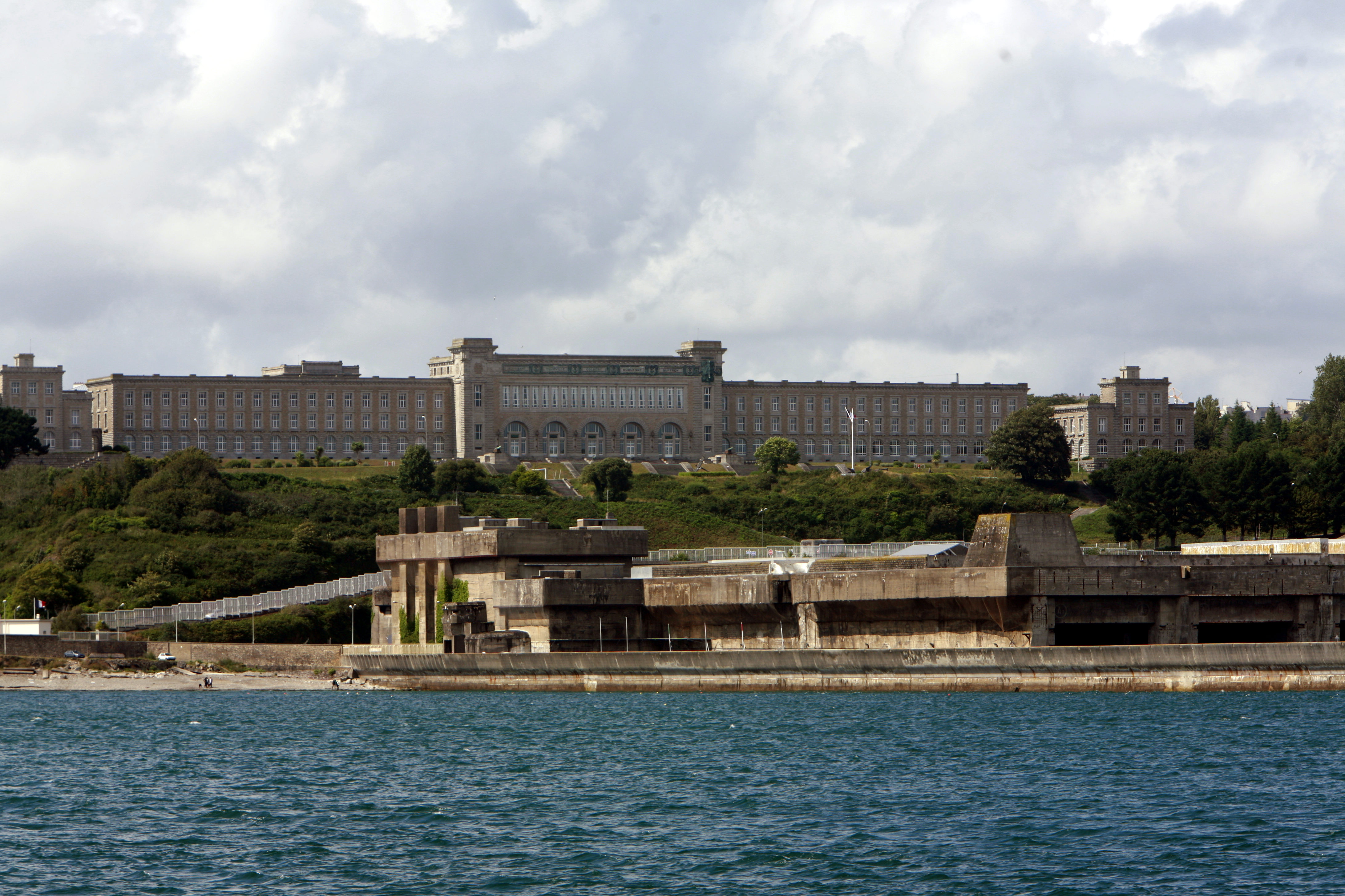 The Ecole de Maistrance. the Brest submarine base, built by the Germans during the Second World War, can be seen in the foreground.